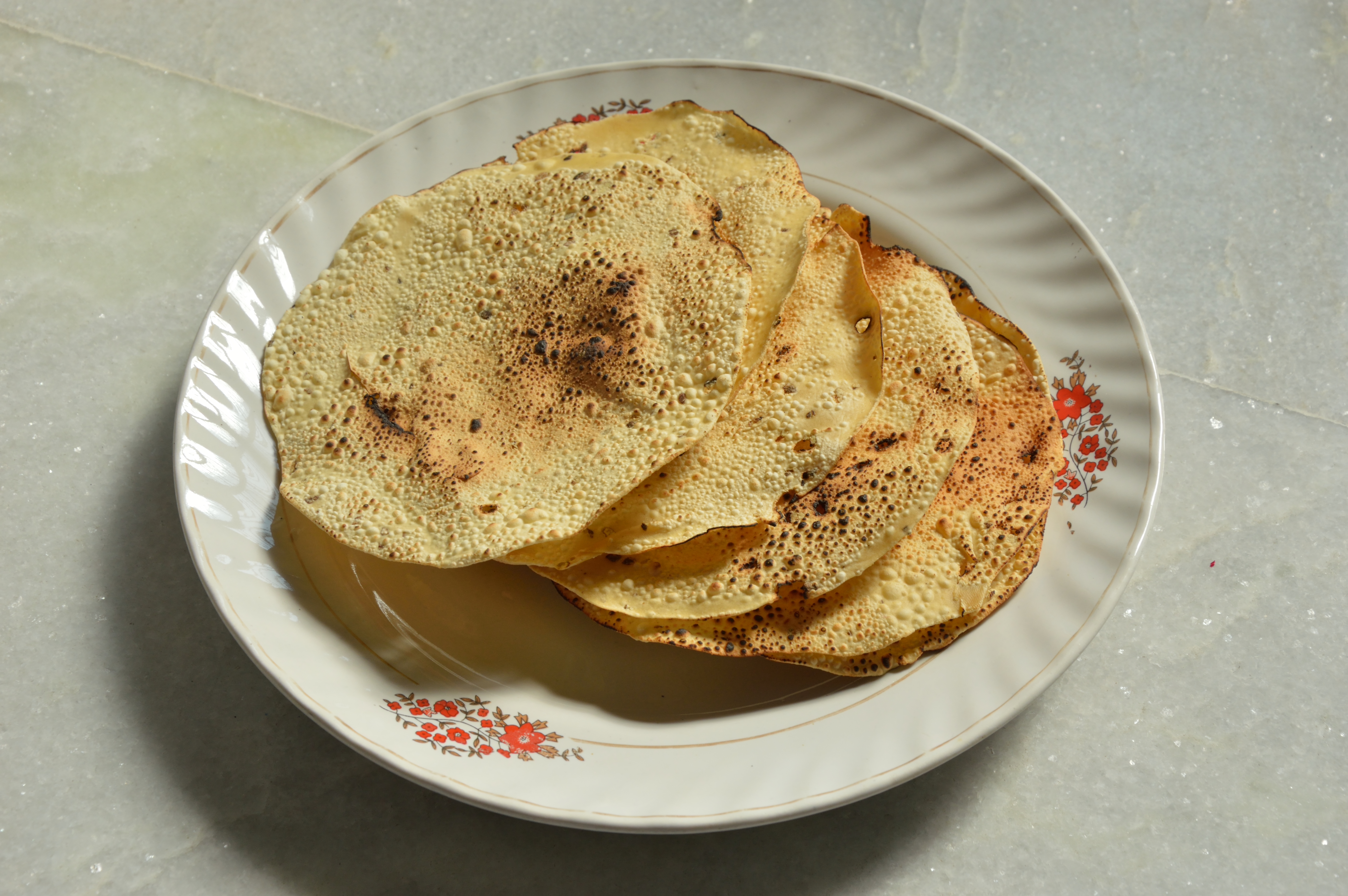 Bengali food.